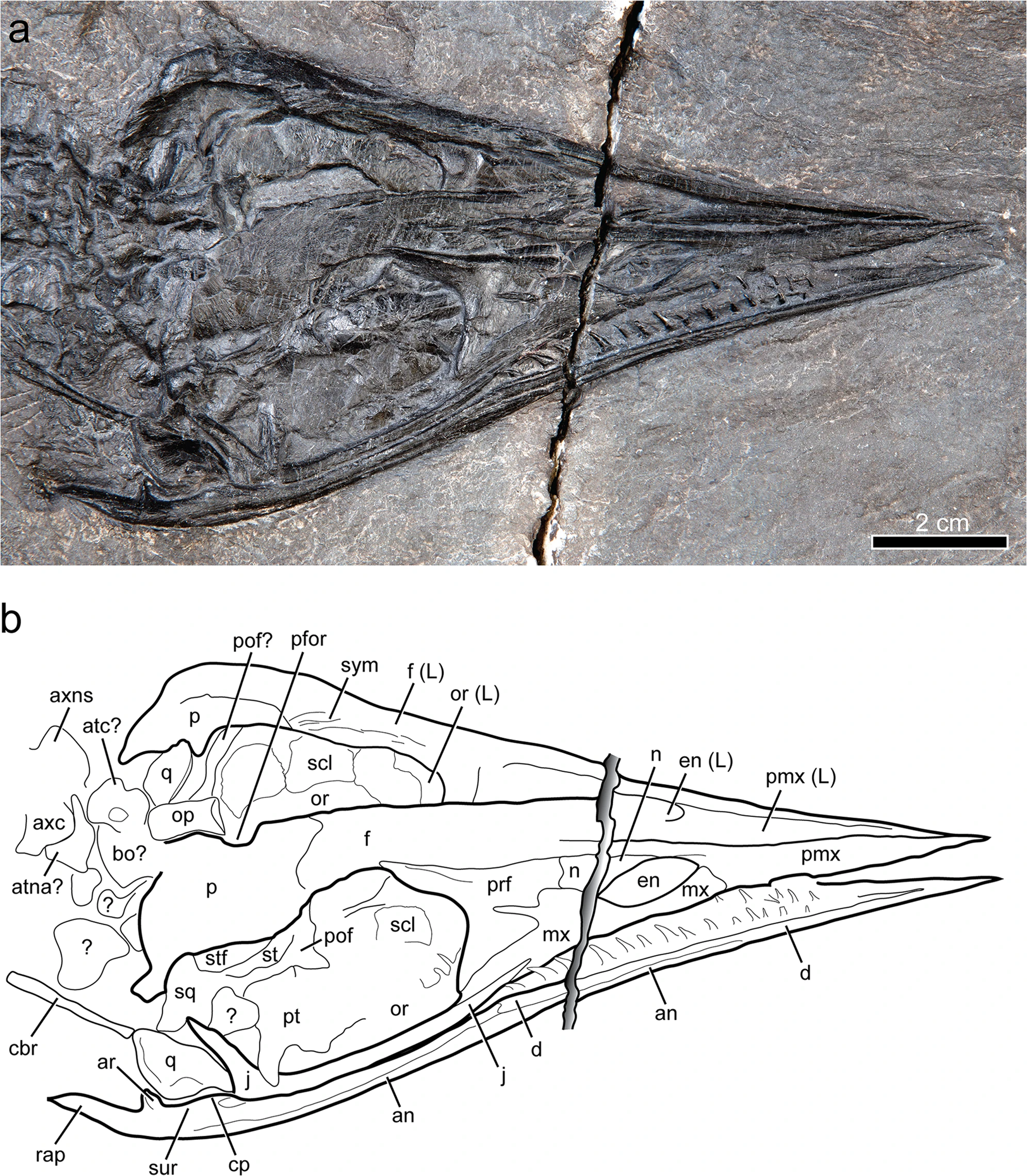 Skull of Gunakadeit joseeae. (a) Photograph. (b) Interpretation of the holotype specimen UAMES 23258 in oblique right lateral view. Abbreviations: an, angular; ar, articular; atc, atlas centrum; atna, atlas neural arch; axc, axis centrum; axns, axis neural spine; bo, basioccipital; cbr, ceratobranchial; cp, coronoid process; d, dentary; en, external naris; f, frontal; j, jugal; L, left; mx, maxilla; n, nasal; op, opisthotic; or, orbit; p, parietal; pfor, pineal foramen; pof, postorbitofrontal; pmx, premaxilla; prf, prefrontal; pt, pterygoid; q, quadrate; rap, retroarticular process; scl, scleral element; sq, squamosal; st, suptratemporal; stf, supratemporal fenestra; sur, surangular; sym, symphysis.